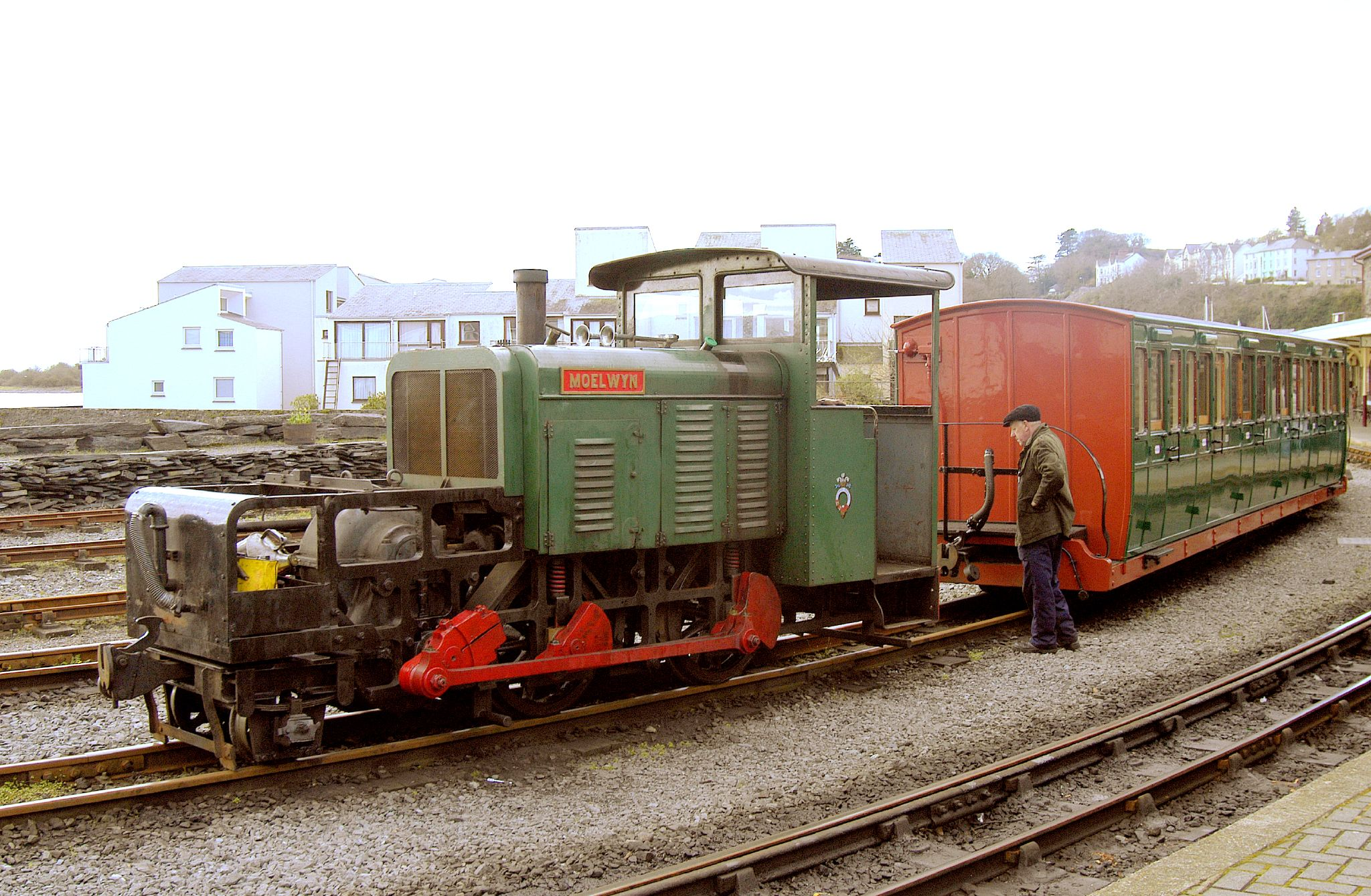 Ffestiniog Railway locomotive Moelwyn shunting at Porthmadog.